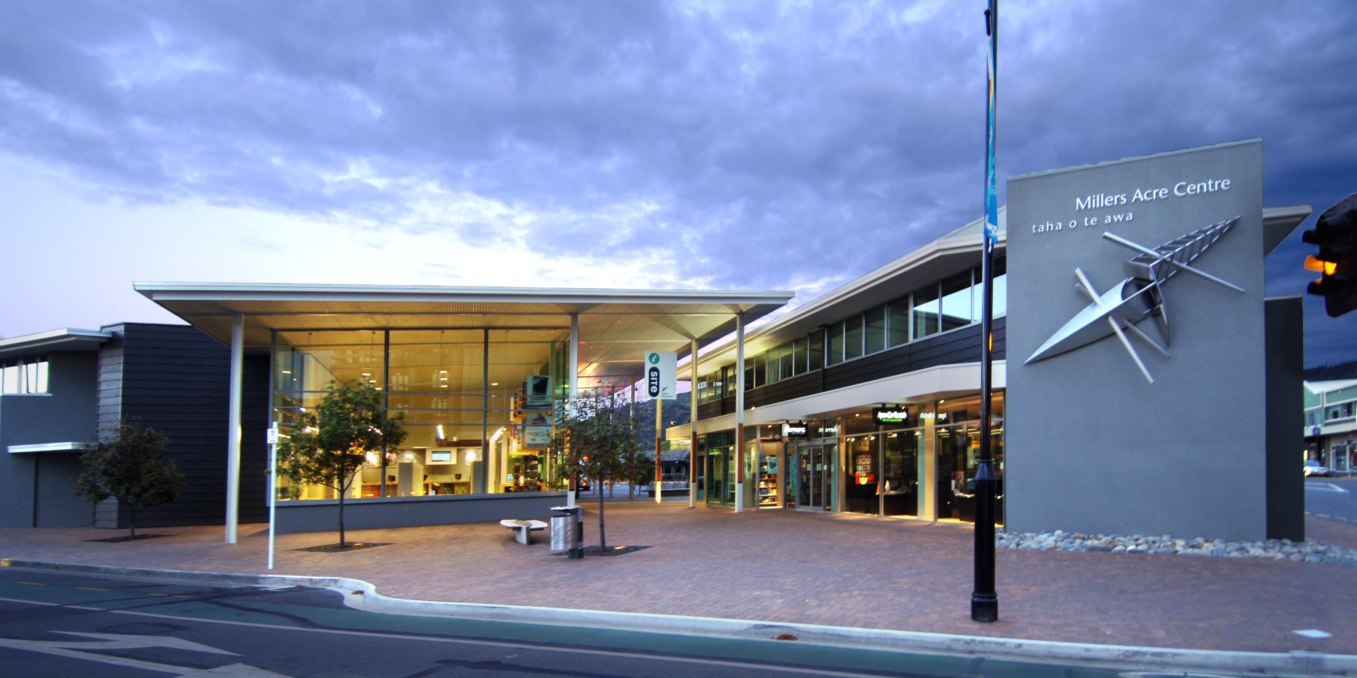 The i-SITE Visitor Information Centre in Nelson, New Zealand - Millers Acre Complex, Taha o te Awa.